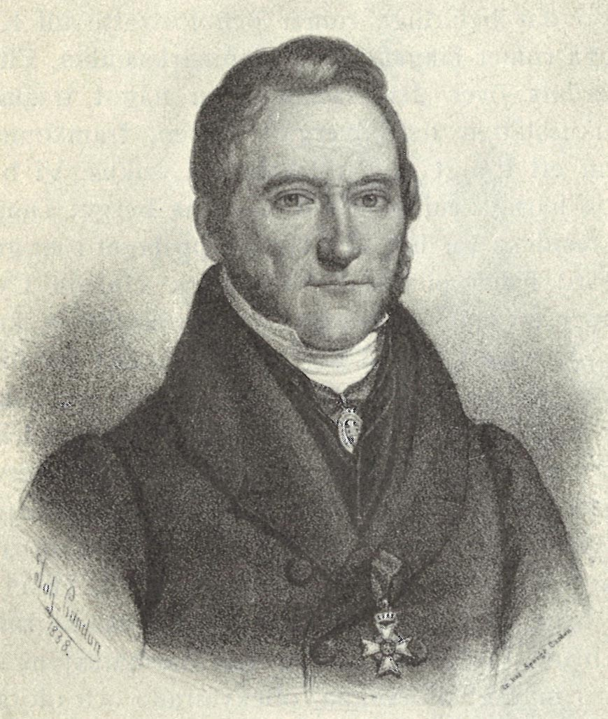 Johan Hedenborg (1787-1865), Swedish physician, scientist and explorer.